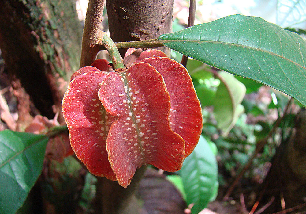 Achariaceae family. With an unusual 8-flange pod, native from Honduras to Ecuador. Photo from Indio Maiz Reserve, southeastern Nicaragua.